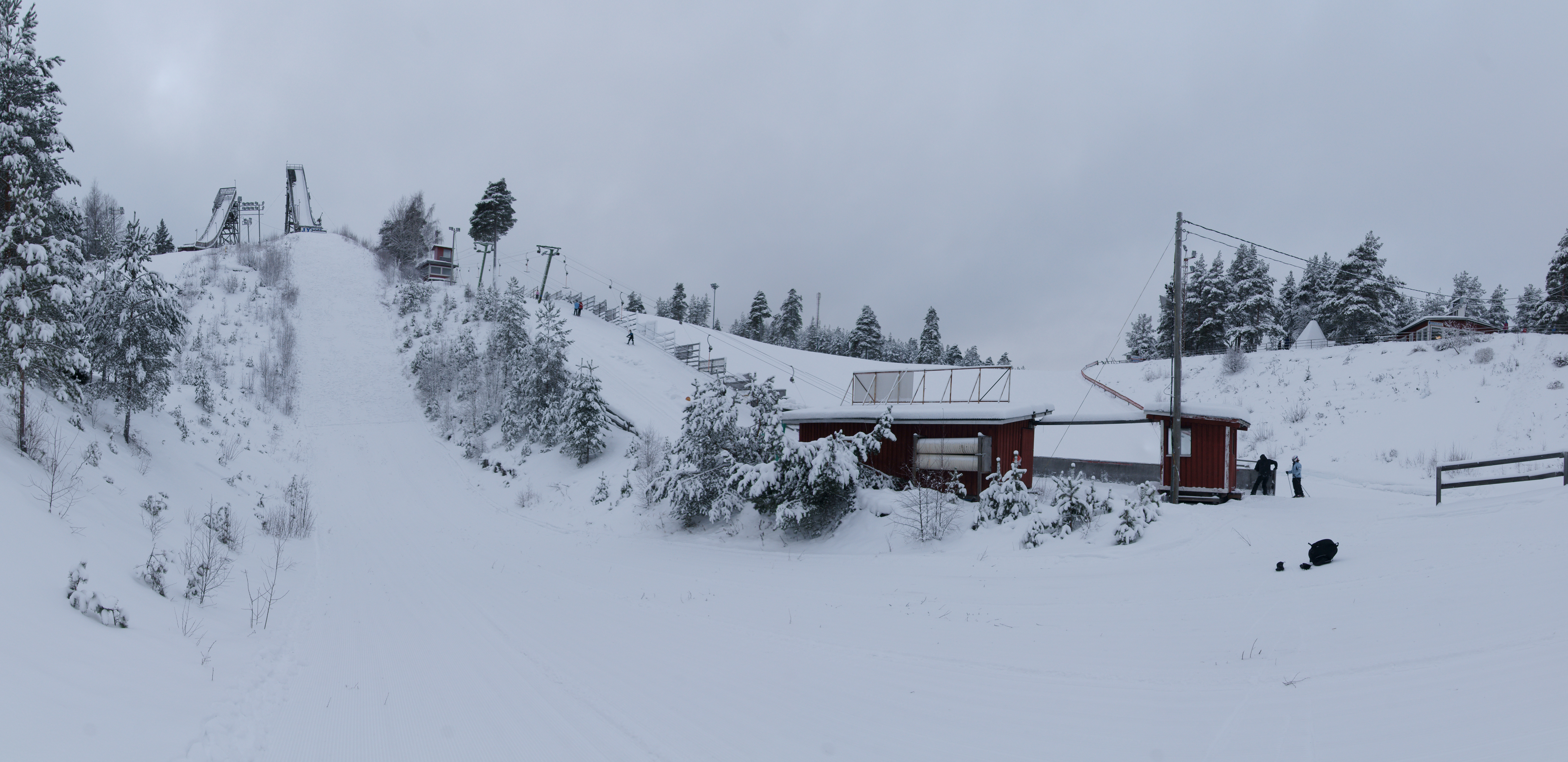 Ski jumping facilities in Hiittenharju.